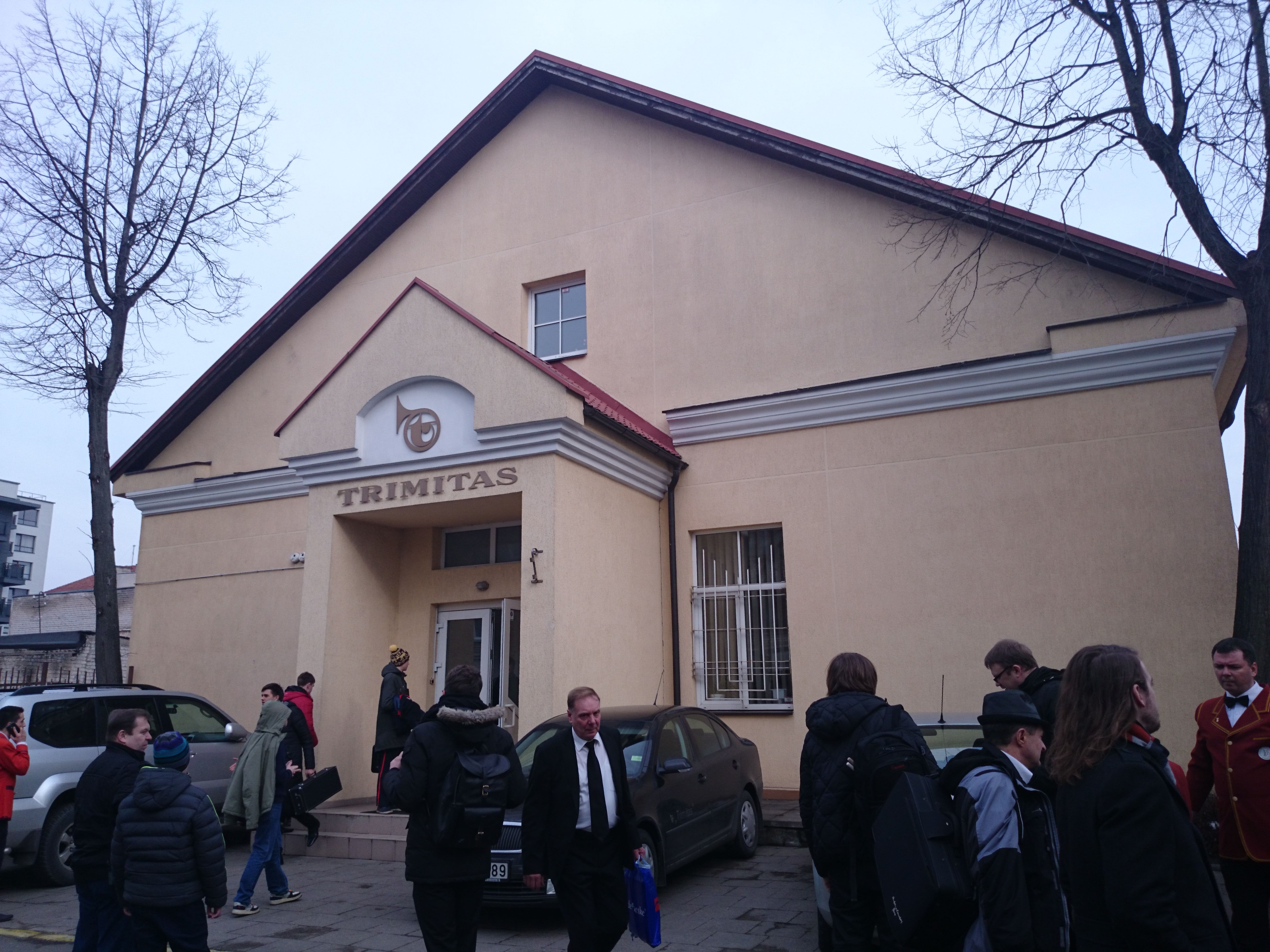 Trimitas